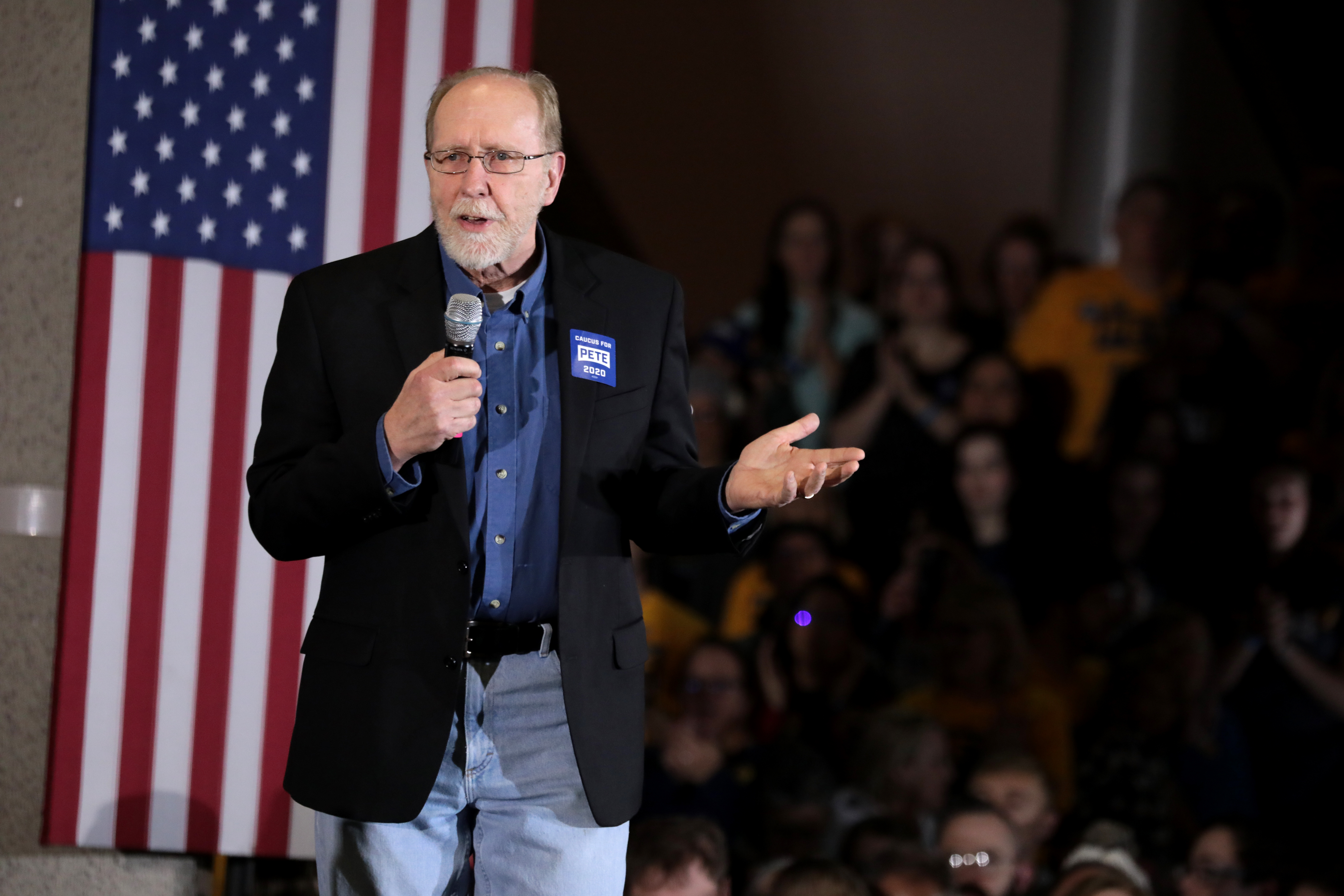 U.S. Congressman David Loebsack speaking with supporters of Mayor Pete Buttigieg at a town hall at the State Historical Museum in Des Moines, Iowa.